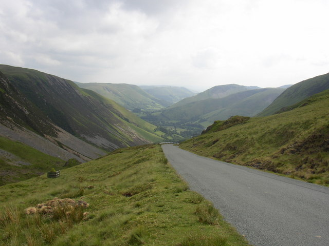 Looking towards Dinas Mawddwy from Bwlch Y Groes. Well worth the narrow roads to get here.